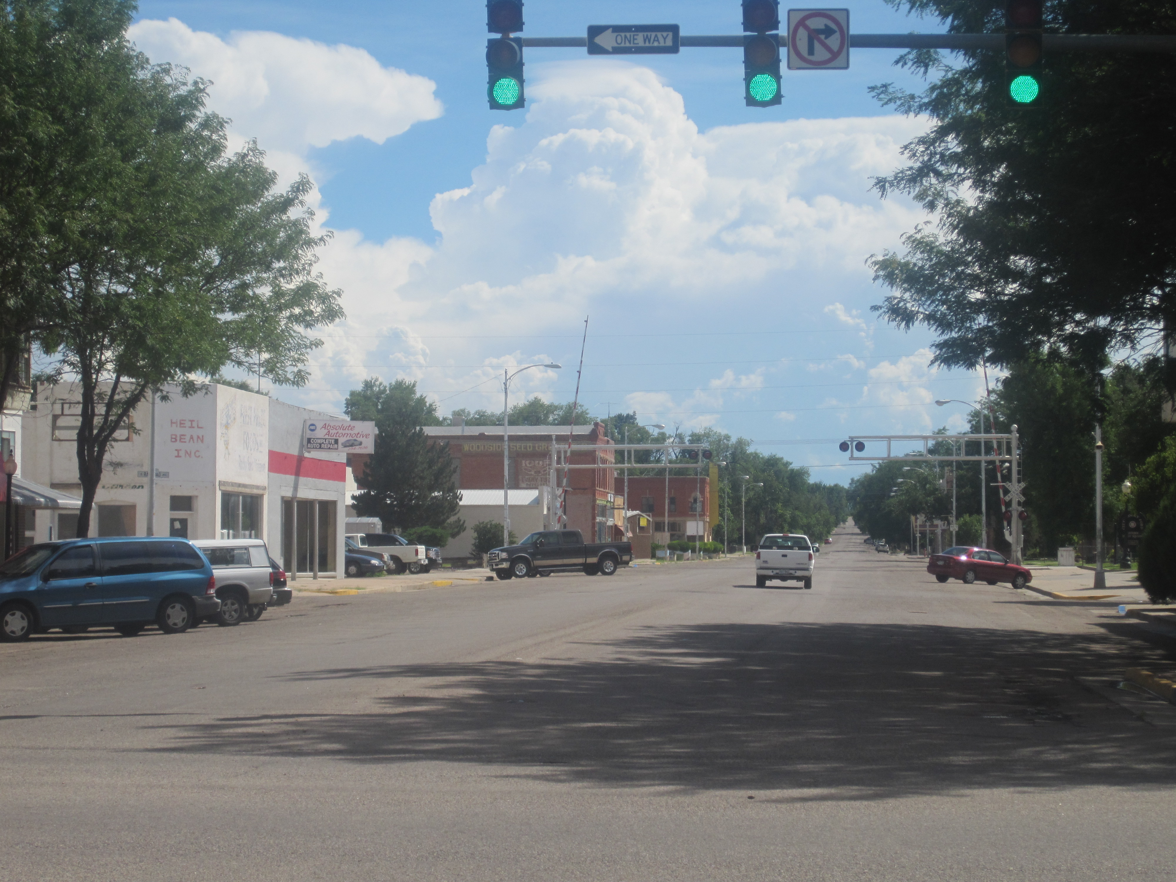 I took photo with Canon camera in Rocky Ford, CO.